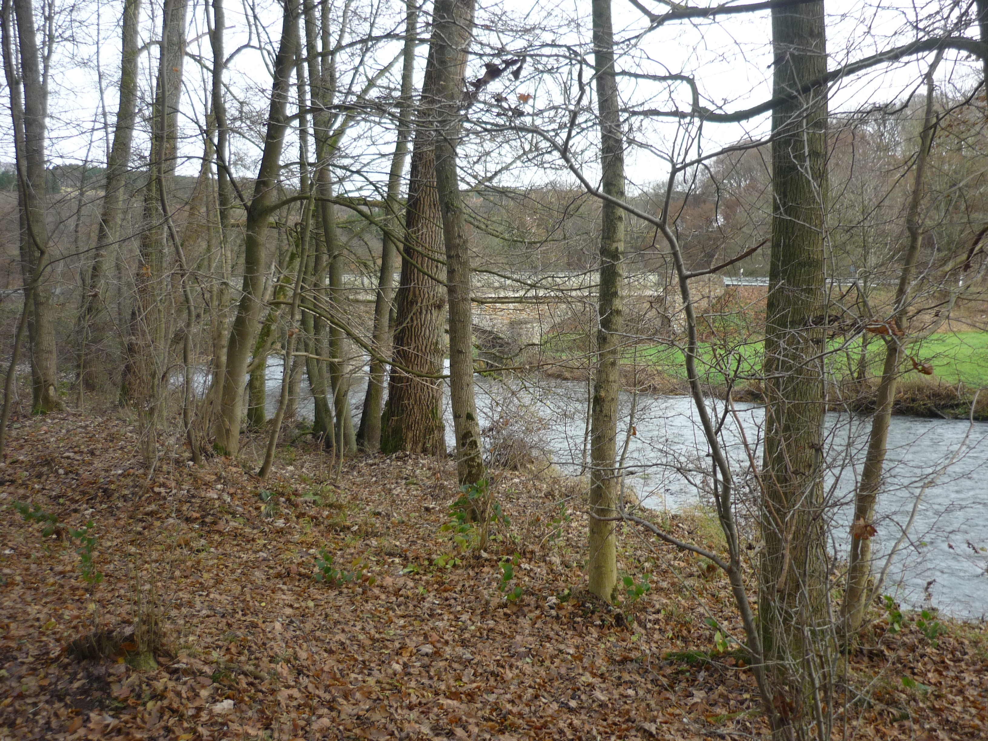 Bridge over nister river near heimborn